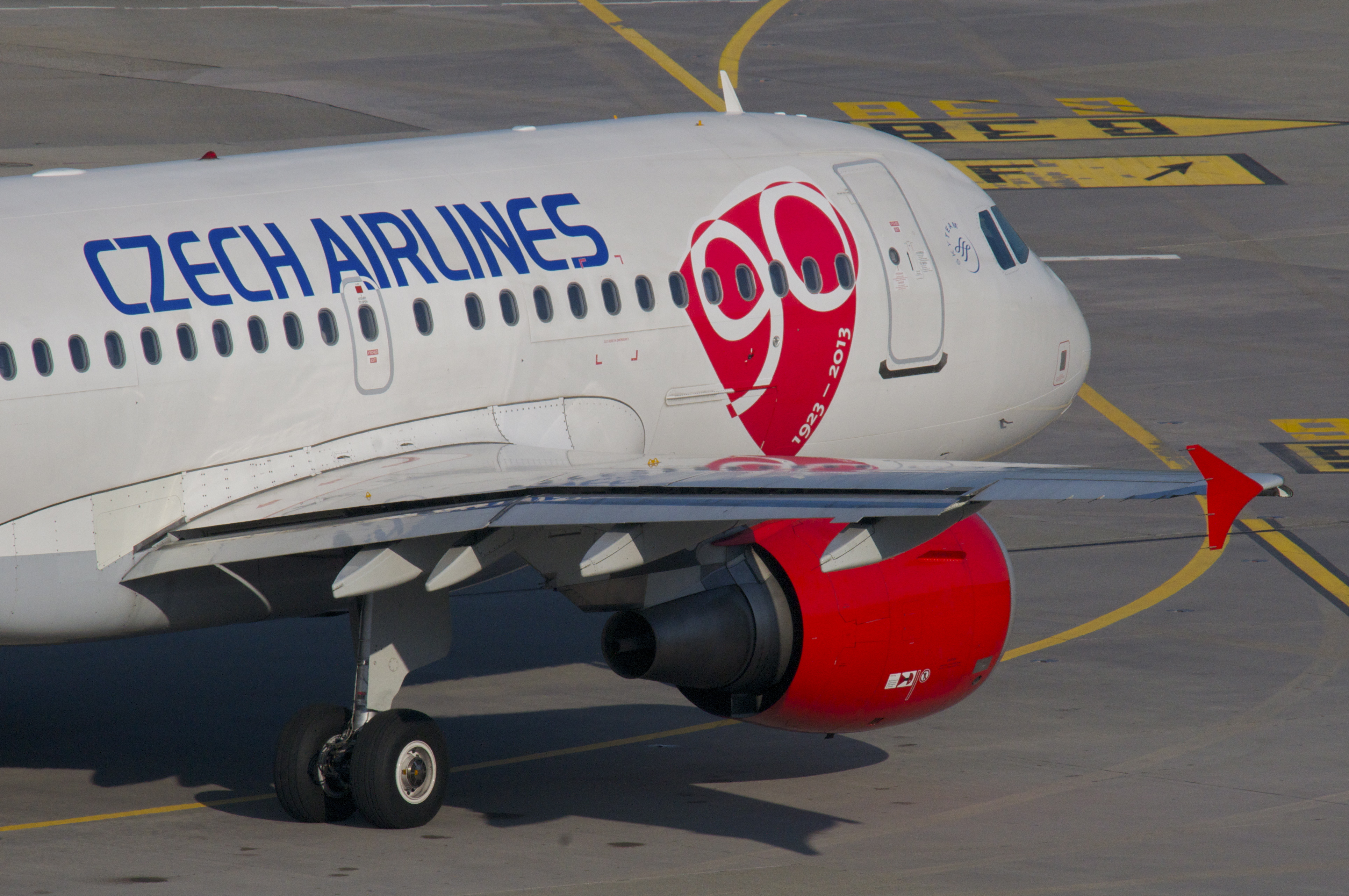 CSA Czech Airlines Airbus A319-112; OK-NEP@ZRH;08.06.2013/709aw